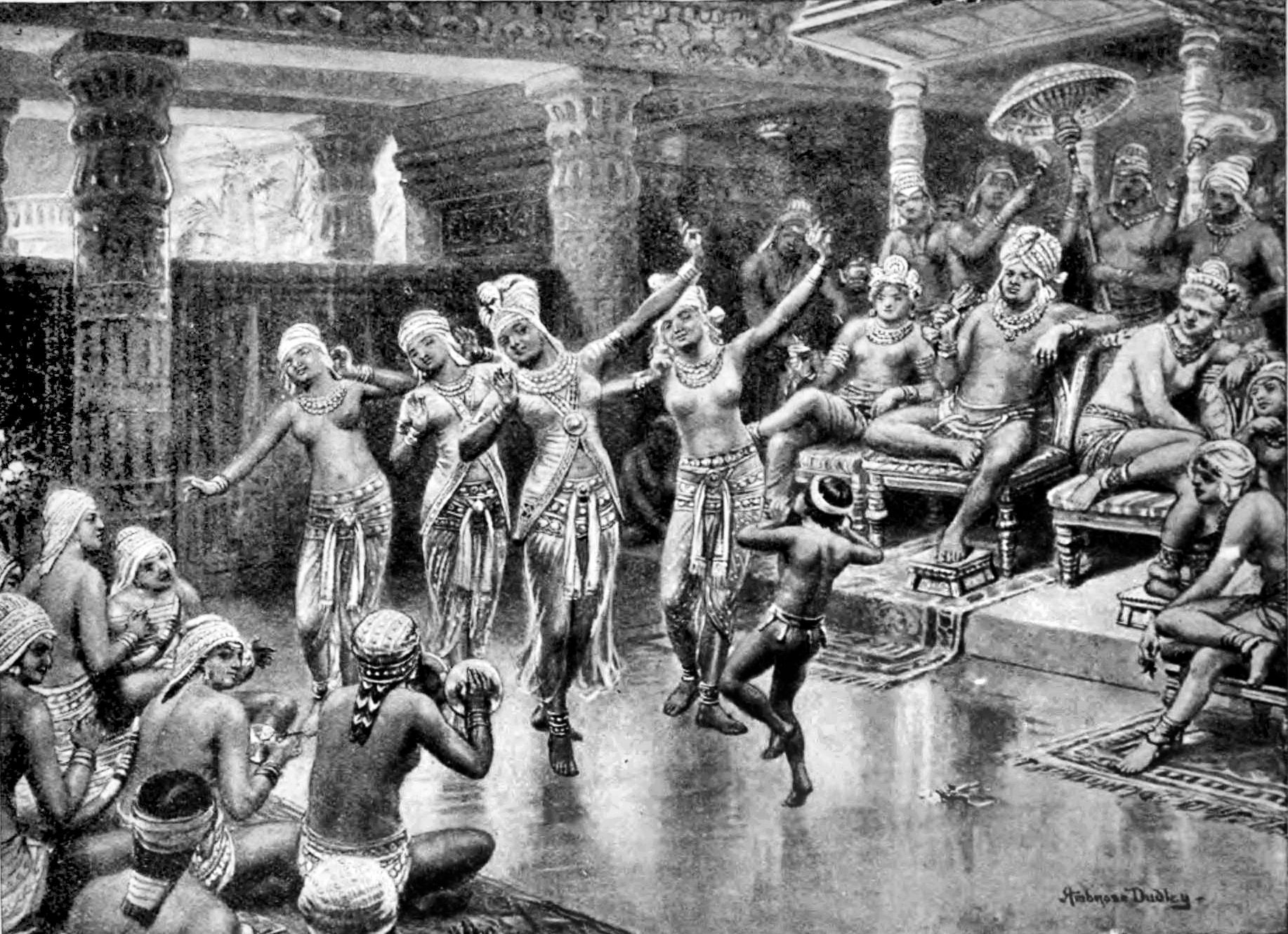 Hutchinson's story of the nations, containing the Egyptians, the Chinese, India, the Babylonian nation, the Hittites, the Assyrians, the Phoenicians and the Carthaginians, the Phrygians, the Lydians, and other nations of Asia Minor.